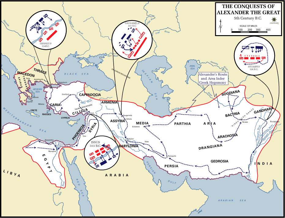 Map of Alexander the Great's conquests.